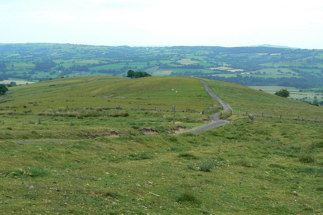 Minn End Lane